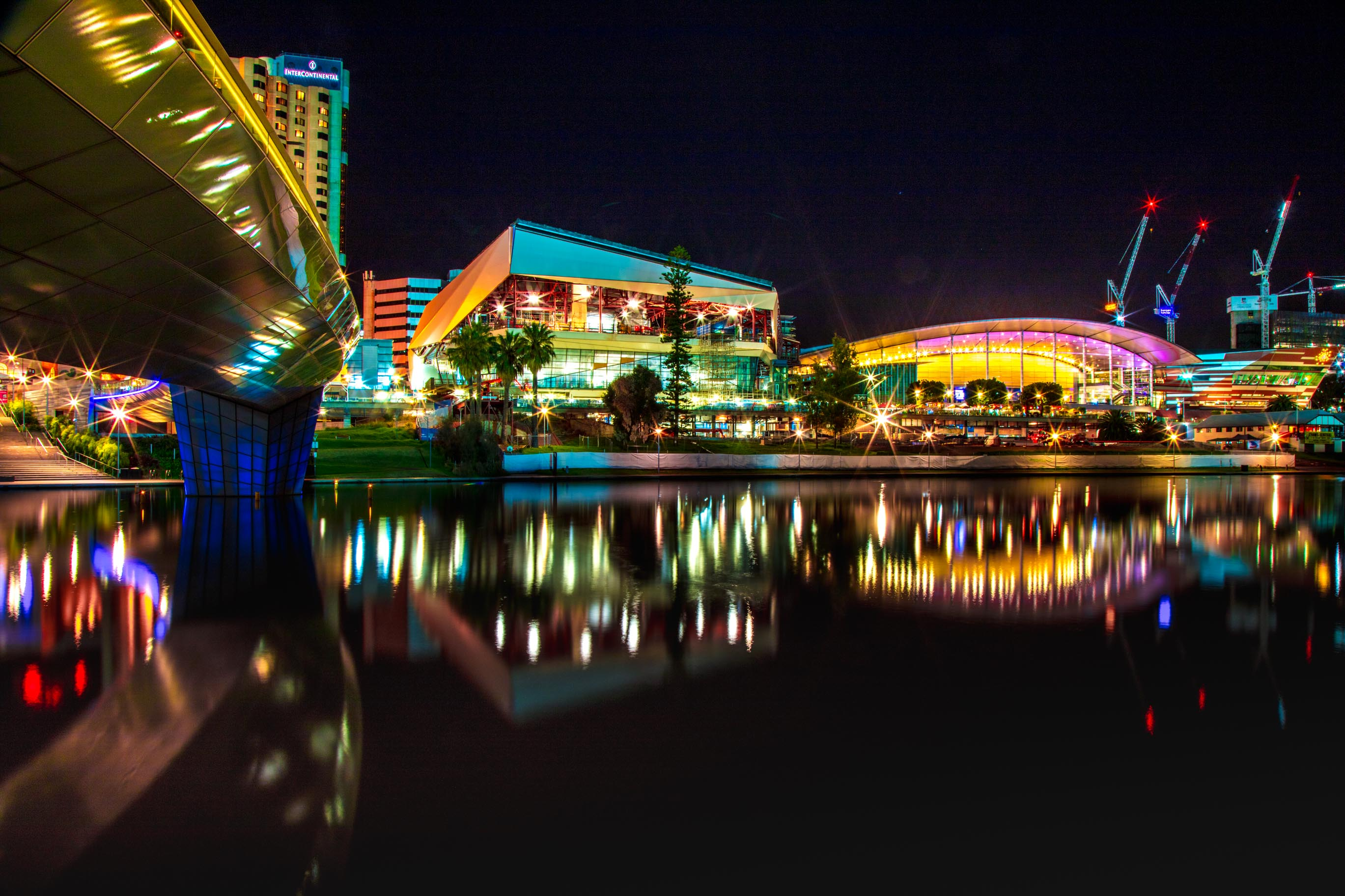 You are welcome to use this photo . please ask before you use. No part of this picture may be reproduced or transmitted in any from or by any means without prior permission. Please license before you use. Please, let me know how you feel about my work and if there are any scope to improve this picture. Facebook page l Blogspot l wordpress | instagram | 500px ========================================== All rights reserved © by Travellers travel photobook